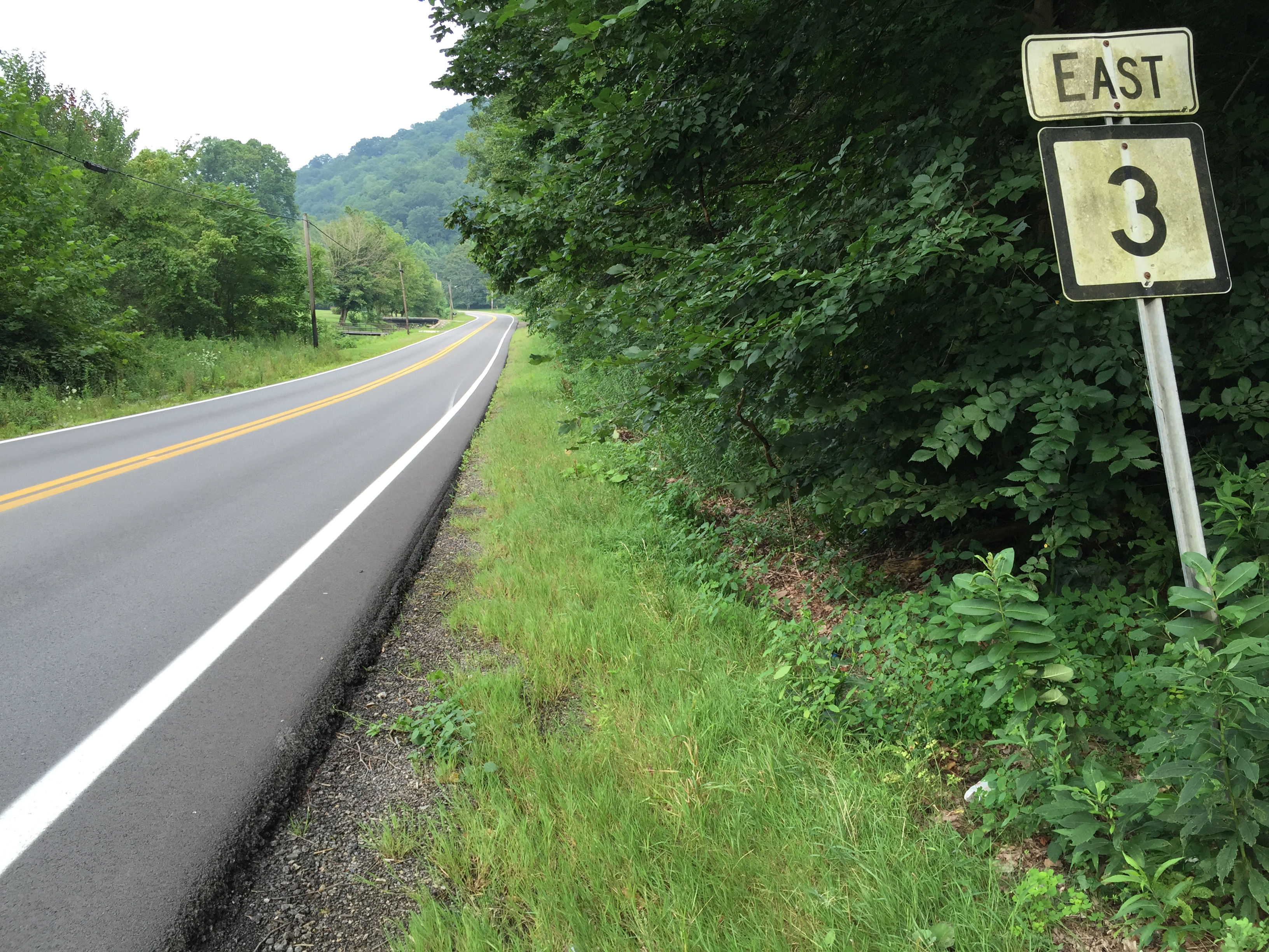 View east along West Virginia State Route 3 (Daniel Boone Parkway) just east of U.S. Route 119 in Rock Creek, Boone County, West Virginia